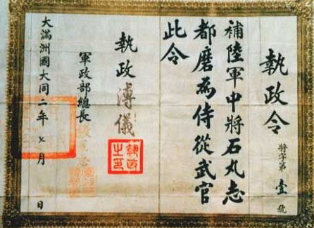 Imperial order from Puyi.